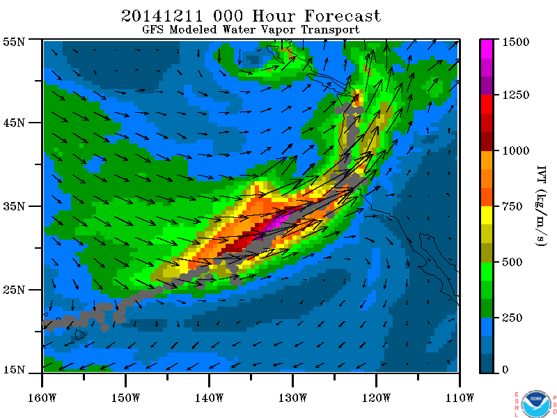 A visualization based on numerical modeling of the atmospheric river event known as Pineapple Express that caused a powerful storm in California on December 11, 2014. (Source: NOAA/ESRL/PSD)